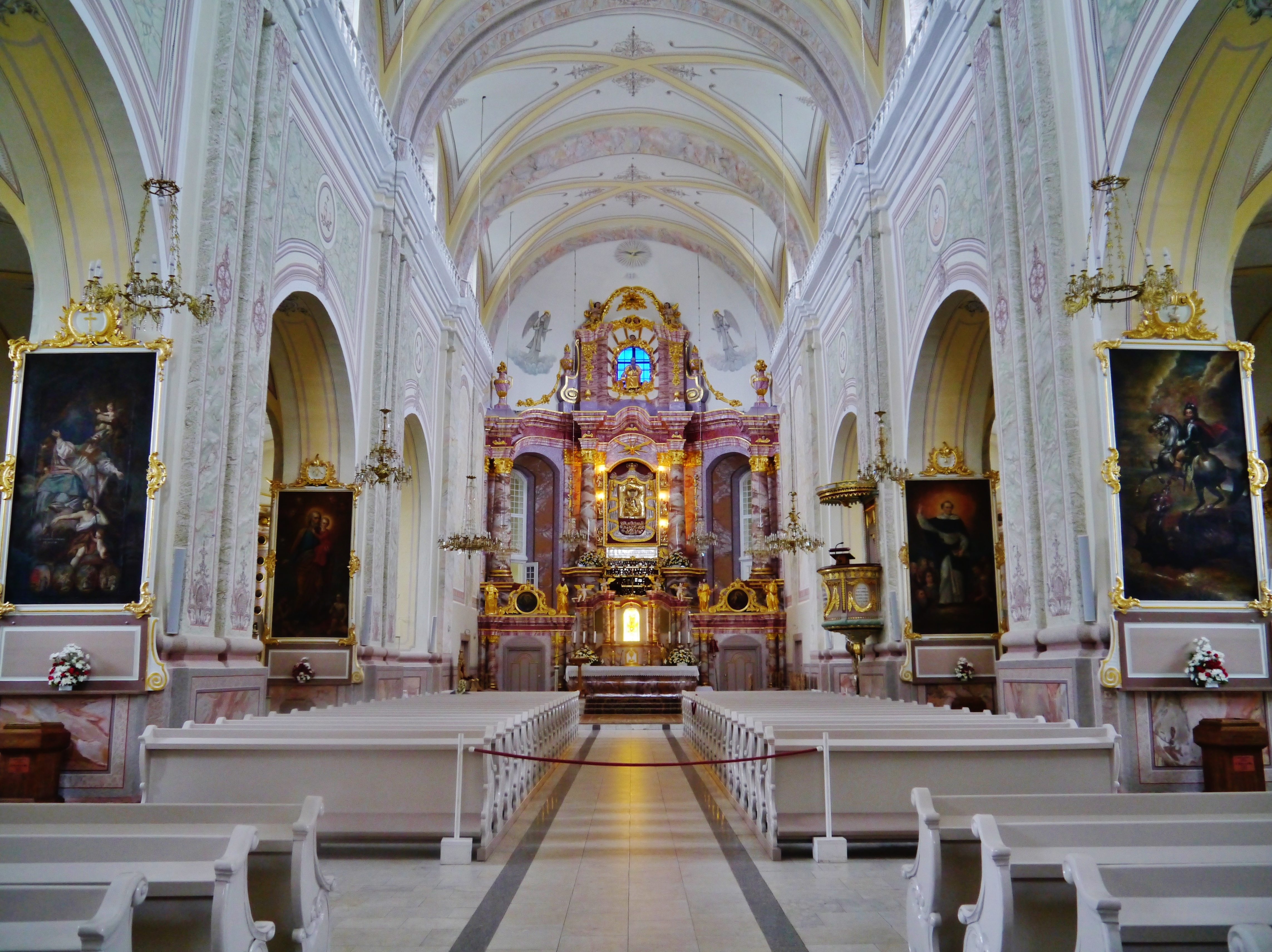 Nave of the Basilica, Aglona, Latvia